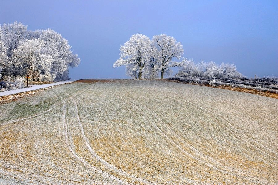 Jammereiche, landmark just south of Breitenthal, Rhineland-Palatinate (Germany) in a wintery scenery with hoar frost.